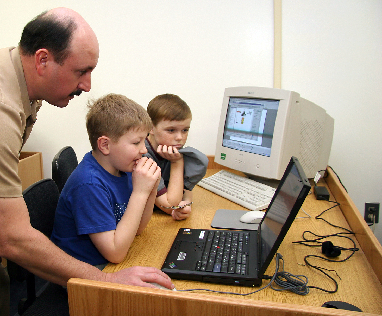 Naval Air Facility Atsugi, Japan (Feb. 10, 2005) - Chief Aviation Warfare Systems Operator Richard McCurdy demonstrates how to create a PowerPoint presentation to Shirley Lanham Elementary School fourth-graders. Twenty-two students from the fourth-grade class received the PowerPoint training from Fleet Aviation Specialized Operational (FASO) Training Group Pacific Detachment as part of Job Shadow Day 2005, a nation-wide effort to match students with career mentors in real-world work centers. U.S. Navy photo by Jeff Kraftchak (RELEASED)